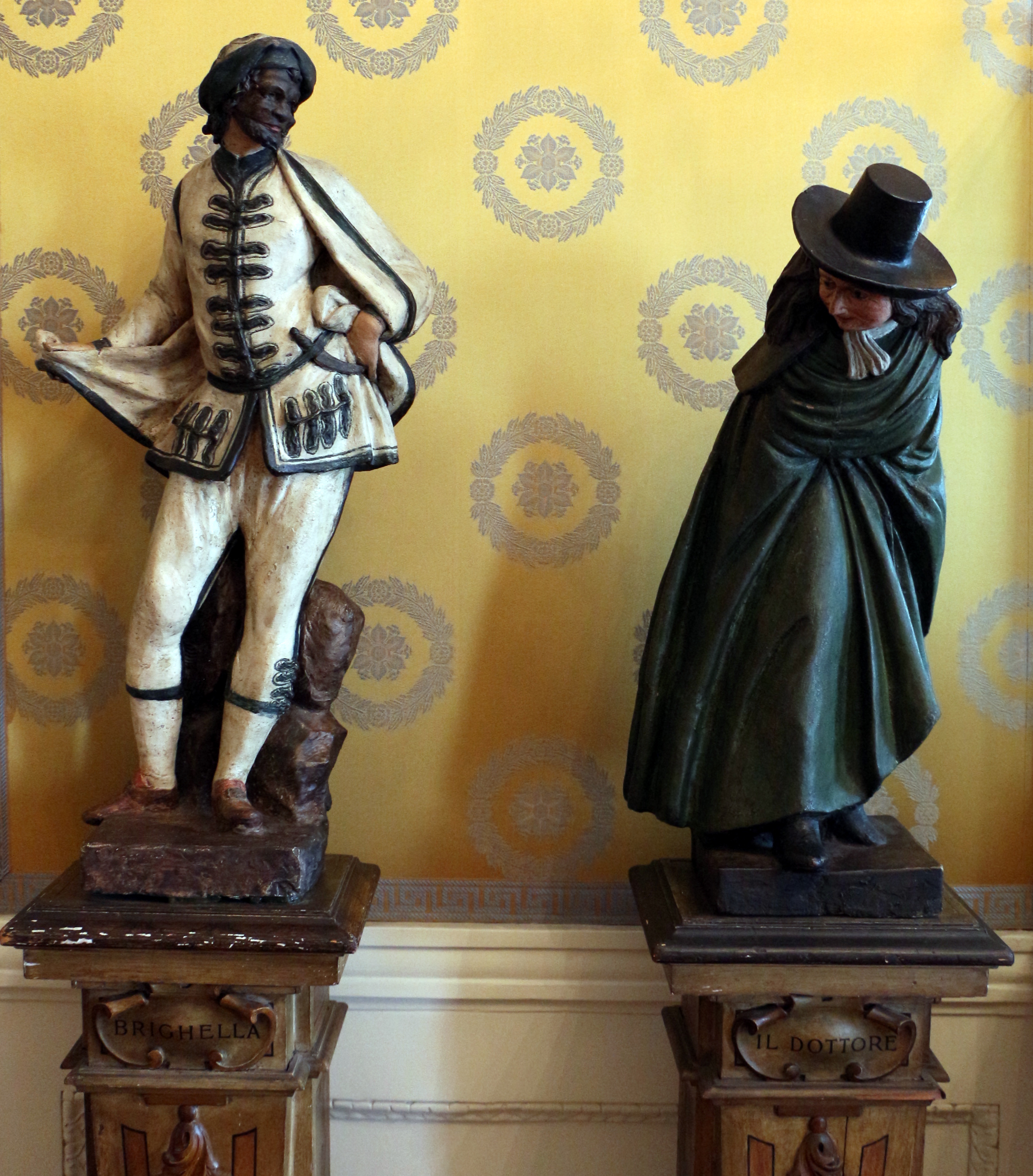 Museo del Teatro alla Scala (Milan)